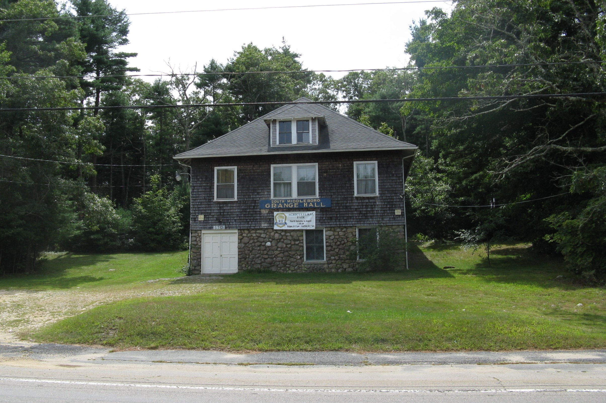 South Middleboro Grange Hall, South Middleborough Massachusetts